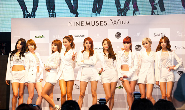 Nine Muses at mini album WILD launching showcase event, in May 2013